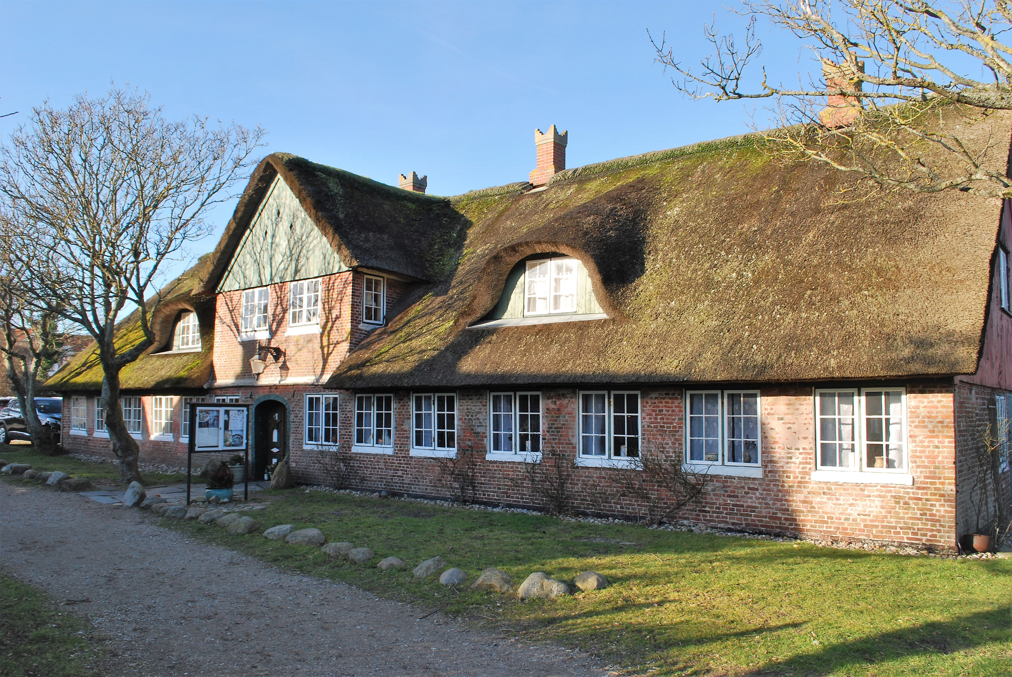 Sønderho Kro, Sønderho, Fanø, Denmark